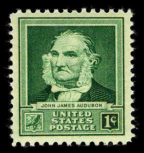 1940 John James Audubon stamp